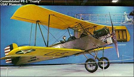 Consolidated PT-1 "Trusty" at the United States Air Force Museum